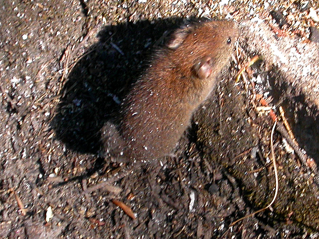 Southern red-backed vole (Myodes gapperi) taken in Lady Evelyn-Smoothwater Park, Ontario